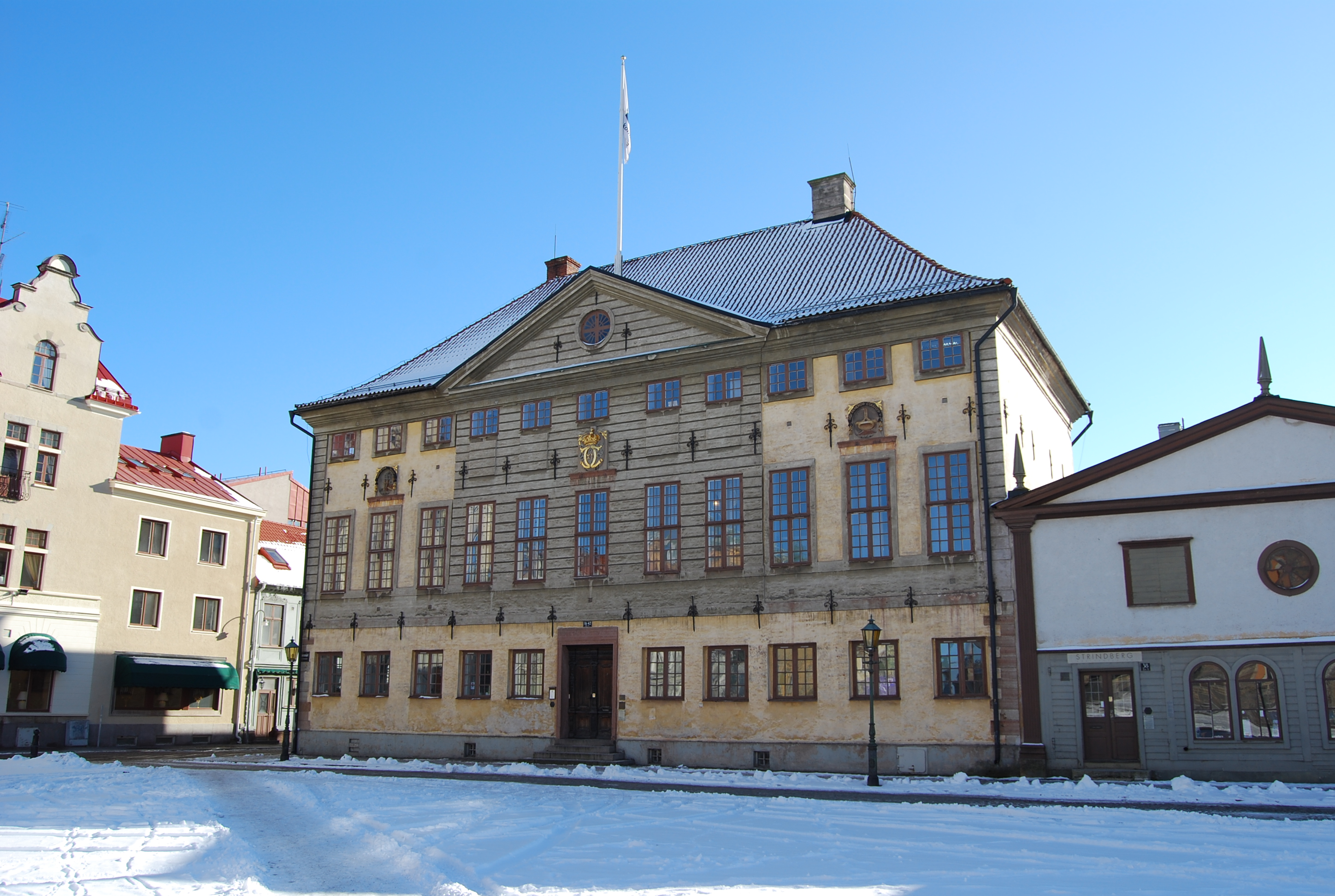 Kalmar rådhus